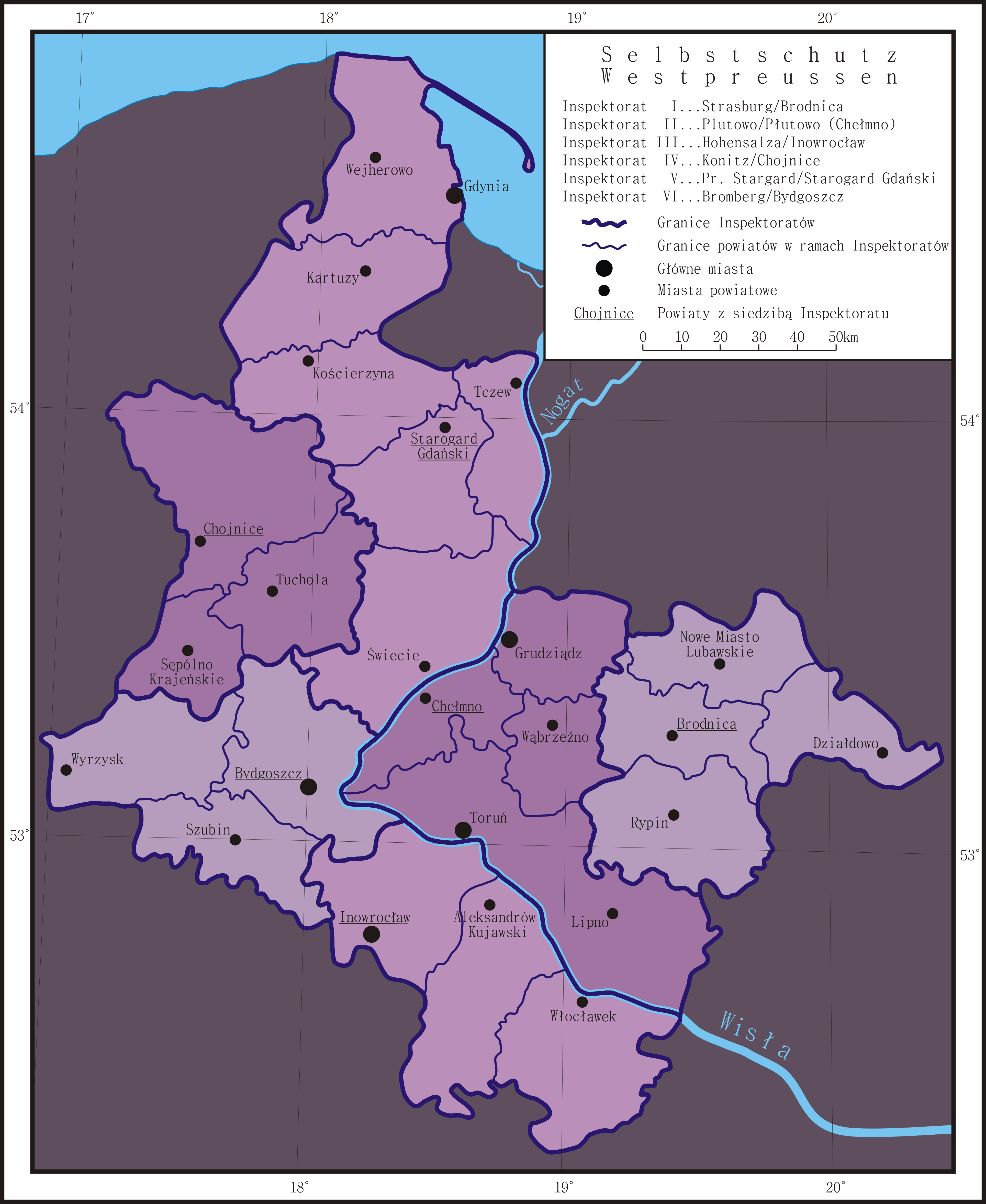 Map that show organization of Selbstschutz Westpreussen inspectorate during autumn of 1939, based on map published on page 49 in "Zbrodnia pomorska 1939", Tomasz Ceran, Izabela Mazanowska, Monika Tomkiewicz, Zbrodnia pomorska 1939, Warszawa 2018, and (added east border of "powiat działdowski"), made in 1939, published in "Terror i zbrodnia", Włodzimierz Jastrzębski, Interpress, Warszawa 1974